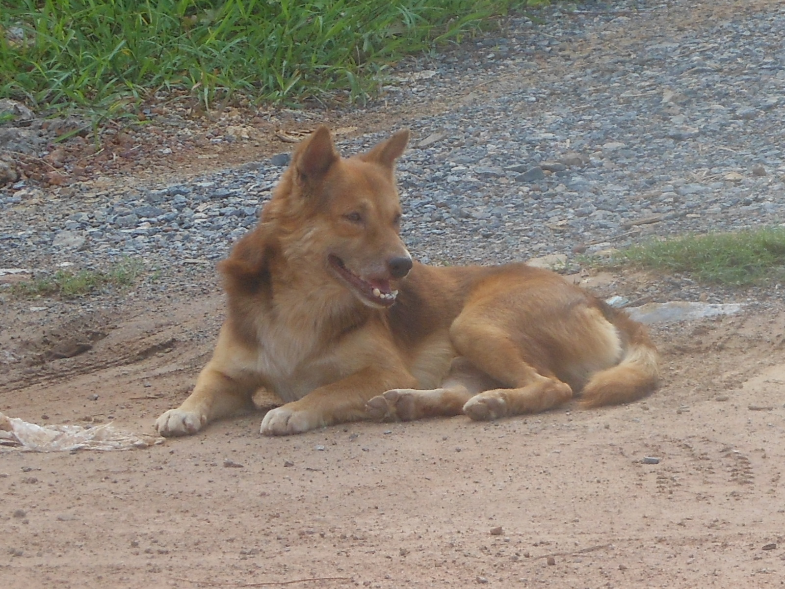 Thai mixed-breed street dog in Phitsanulok Province